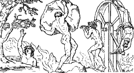 Tântalos, Sìsiphos and Íxion in their respective punishment.